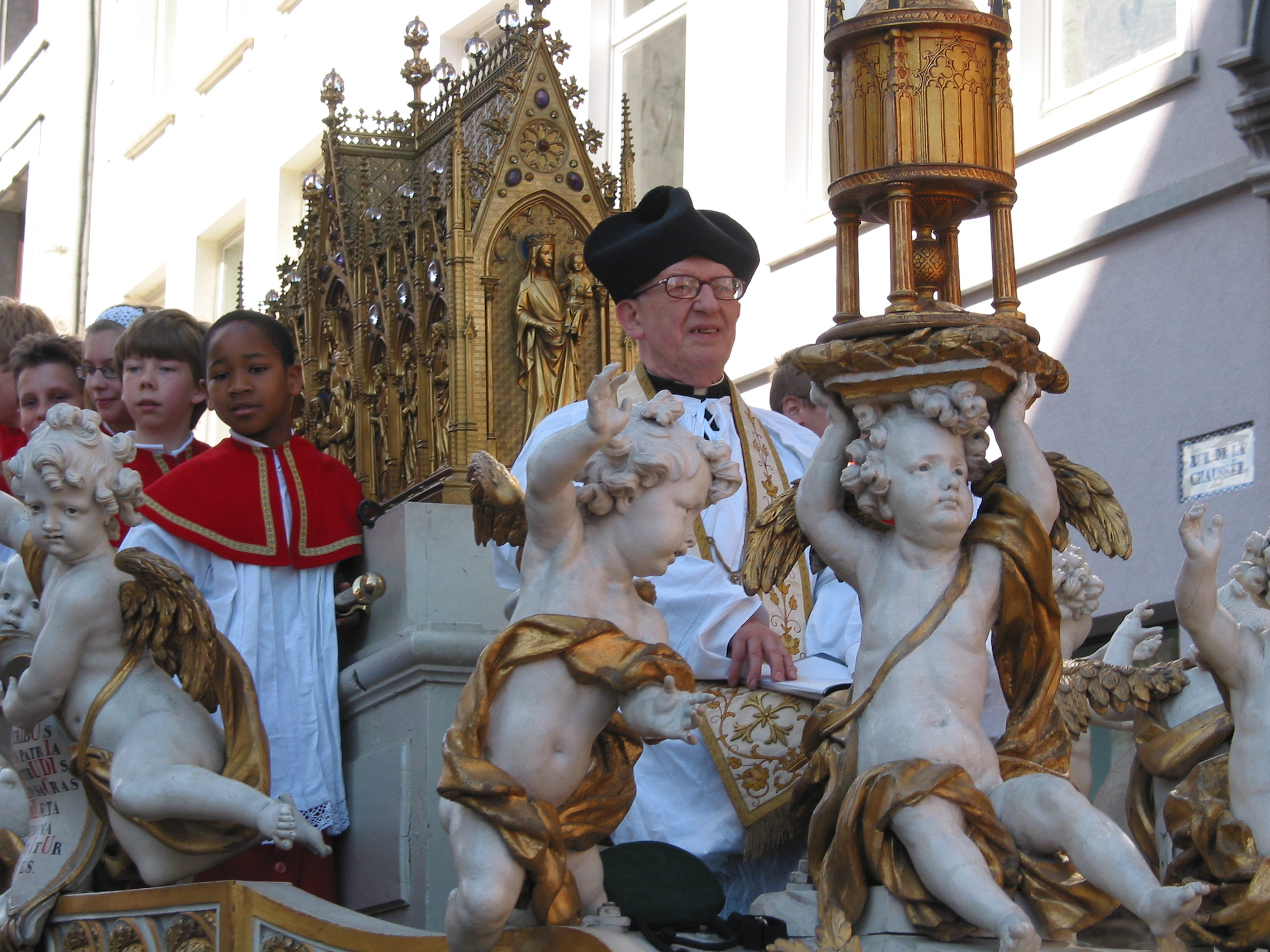 Mons (Belgium), the procession of the Golden Car.